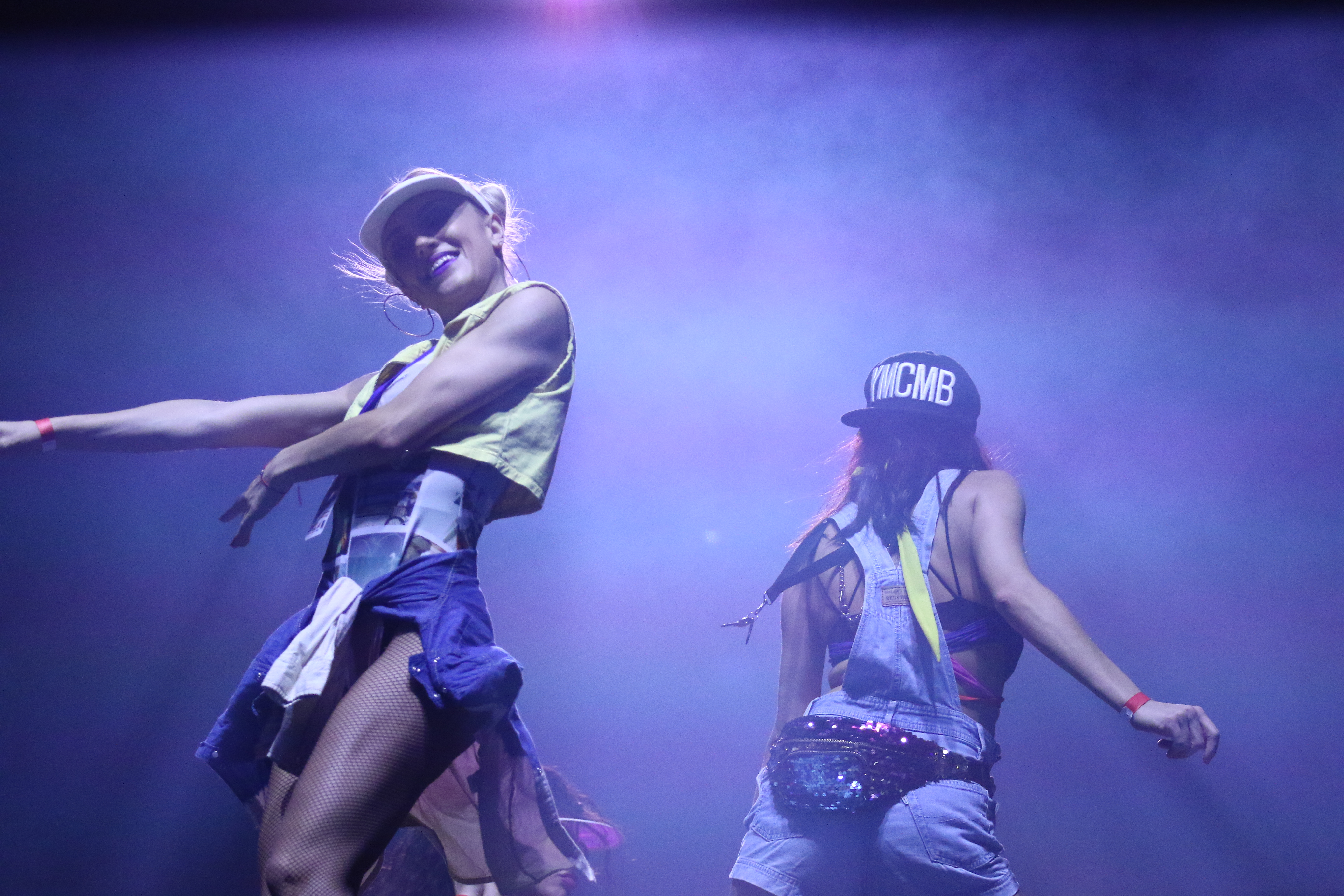 Dancing girls in concert, Sofia, Bulgaria